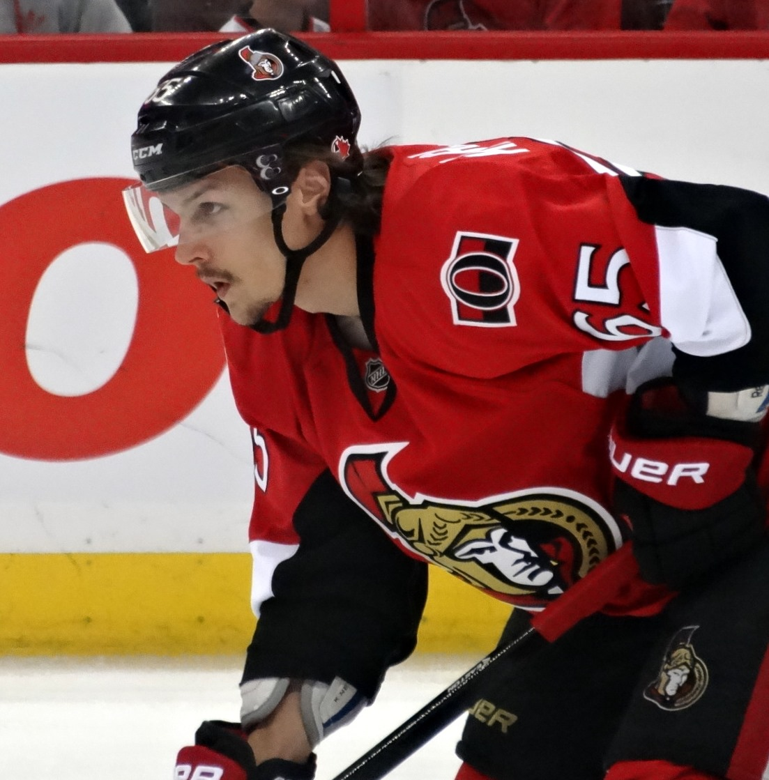 Ottawa Senators defenseman Erik Karlsson, playing in his tenth game back following surgery to repair a lacerated Achilles tendon, logged nearly 40 minutes of ice time in a 2-1 double overtime win over the Pittsburgh Penguins in game three of their second round series at Scotiabank Place in Ottawa, Canada.